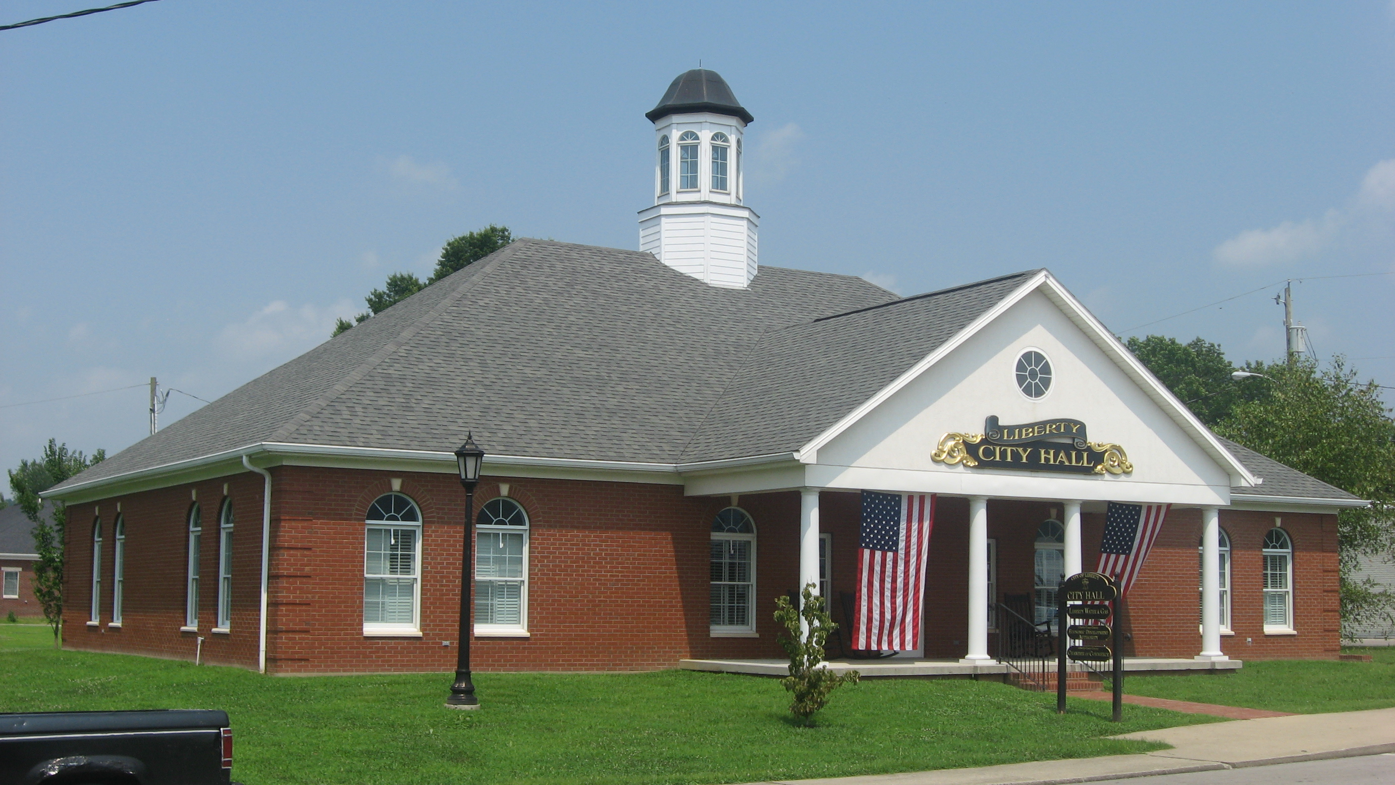 Front of City Hall in Liberty, Kentucky, United States, located at 518 Middleburg Street (Kentucky Route 70).